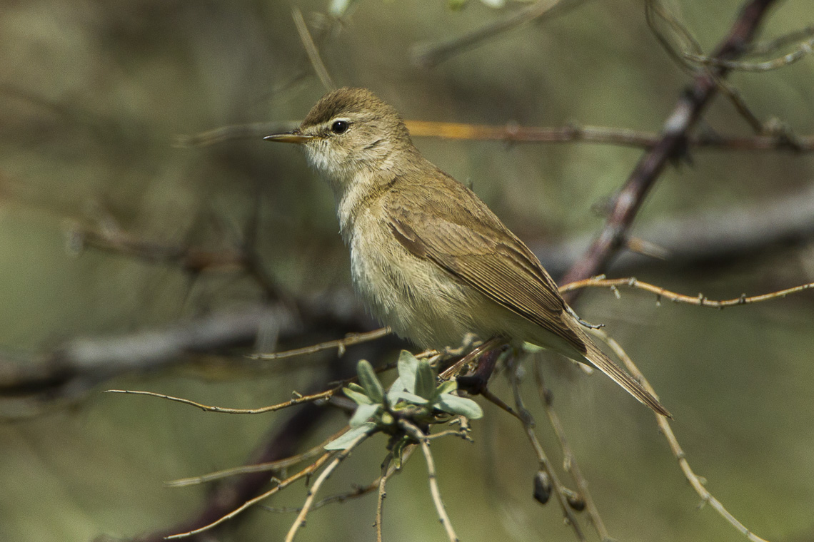 Booted Warbler - Kazakistan_S4E0786